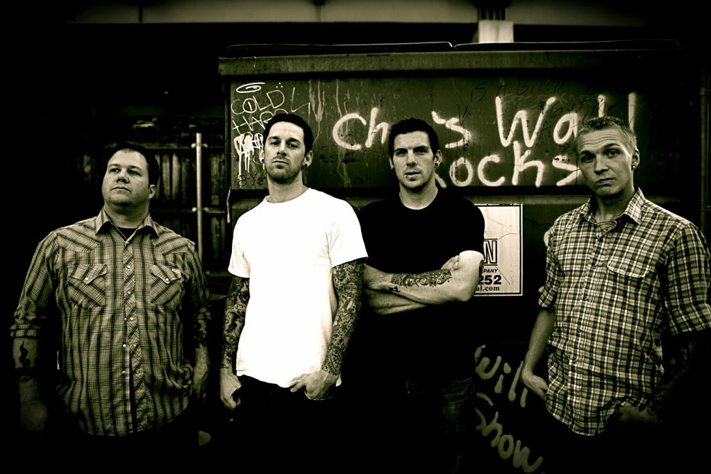 Promo shot of Greyskull.